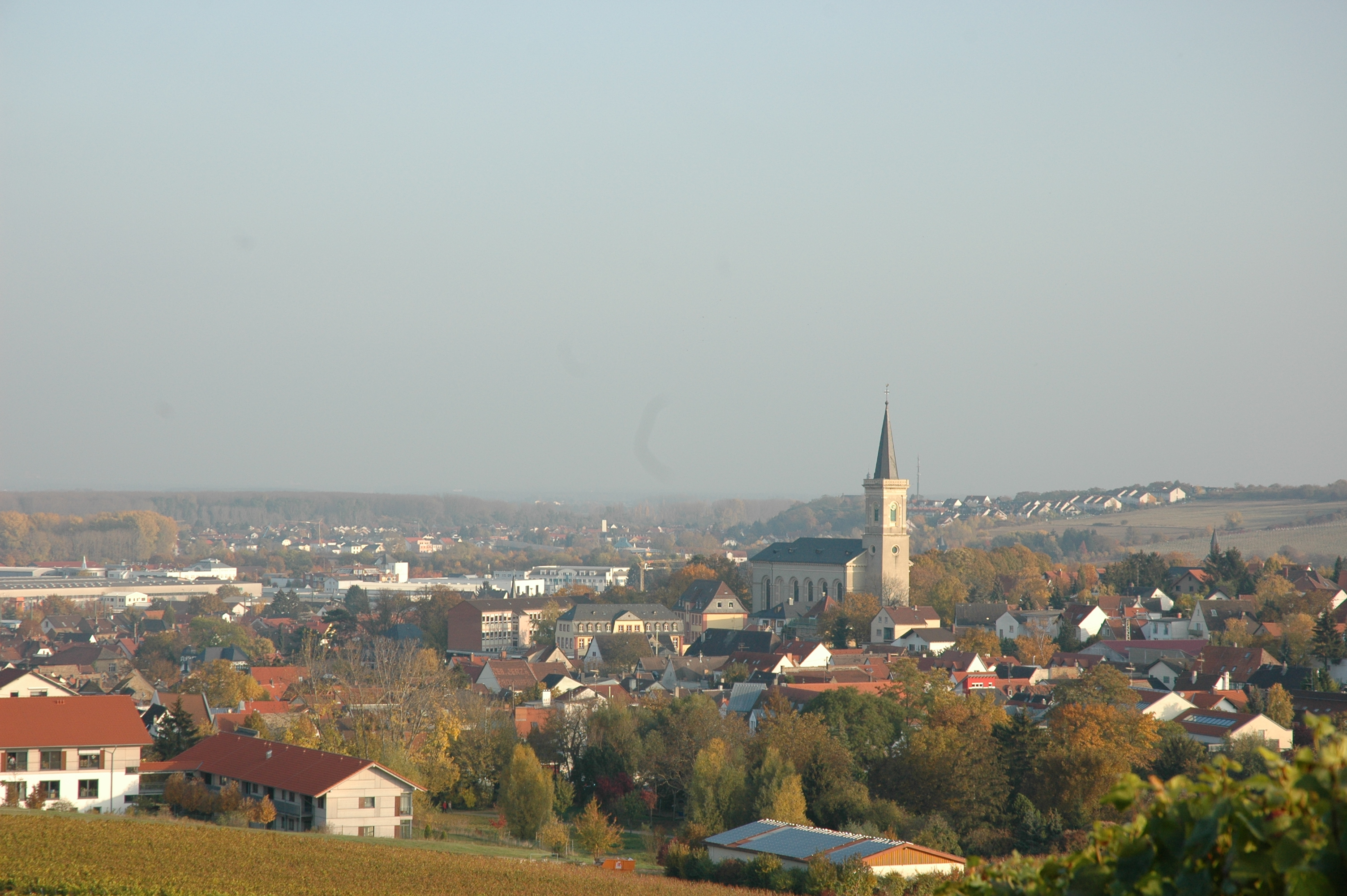 Germany, 55294 Bodenheim